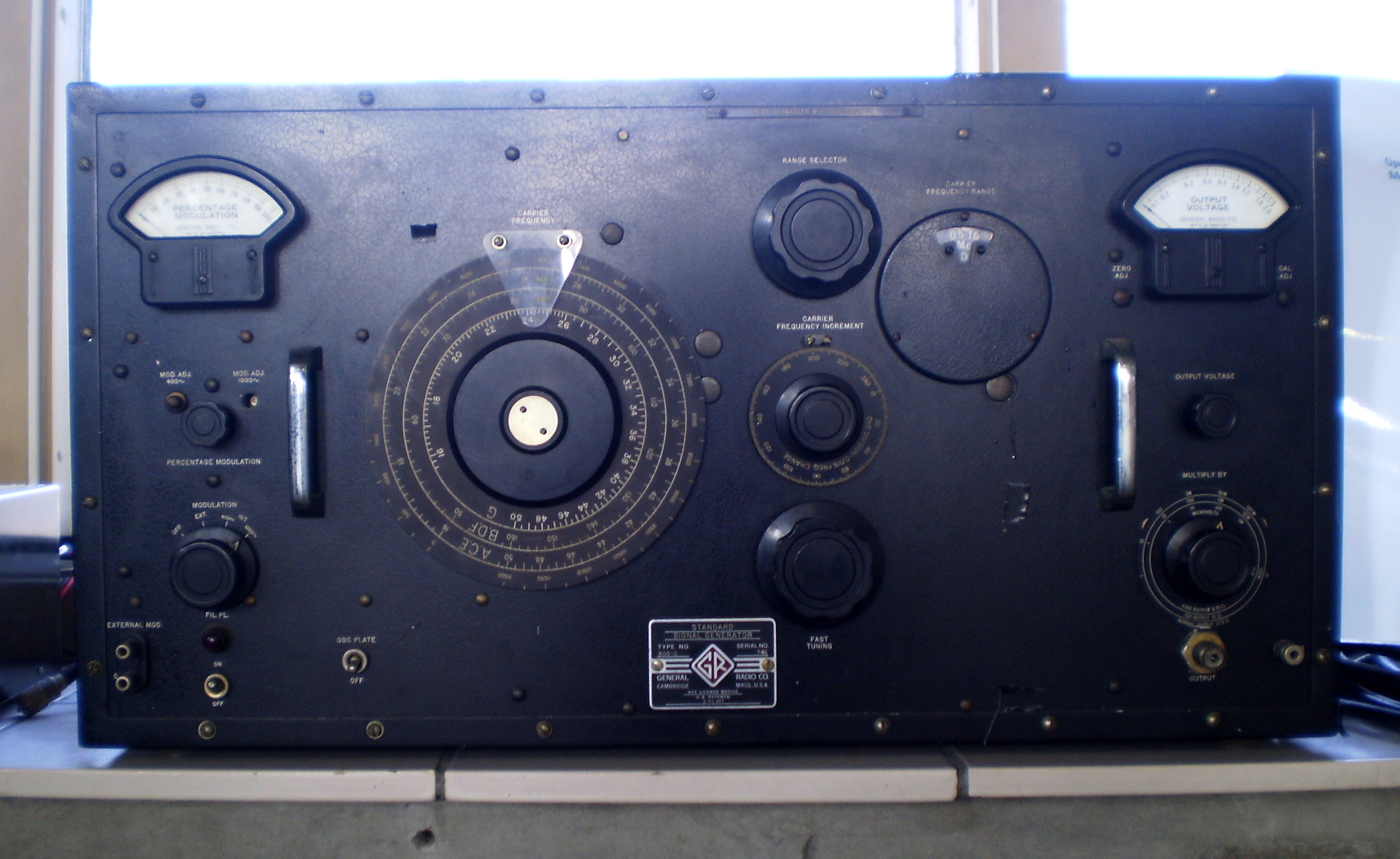 Standard signal generator type 805-C of General Radio Co.